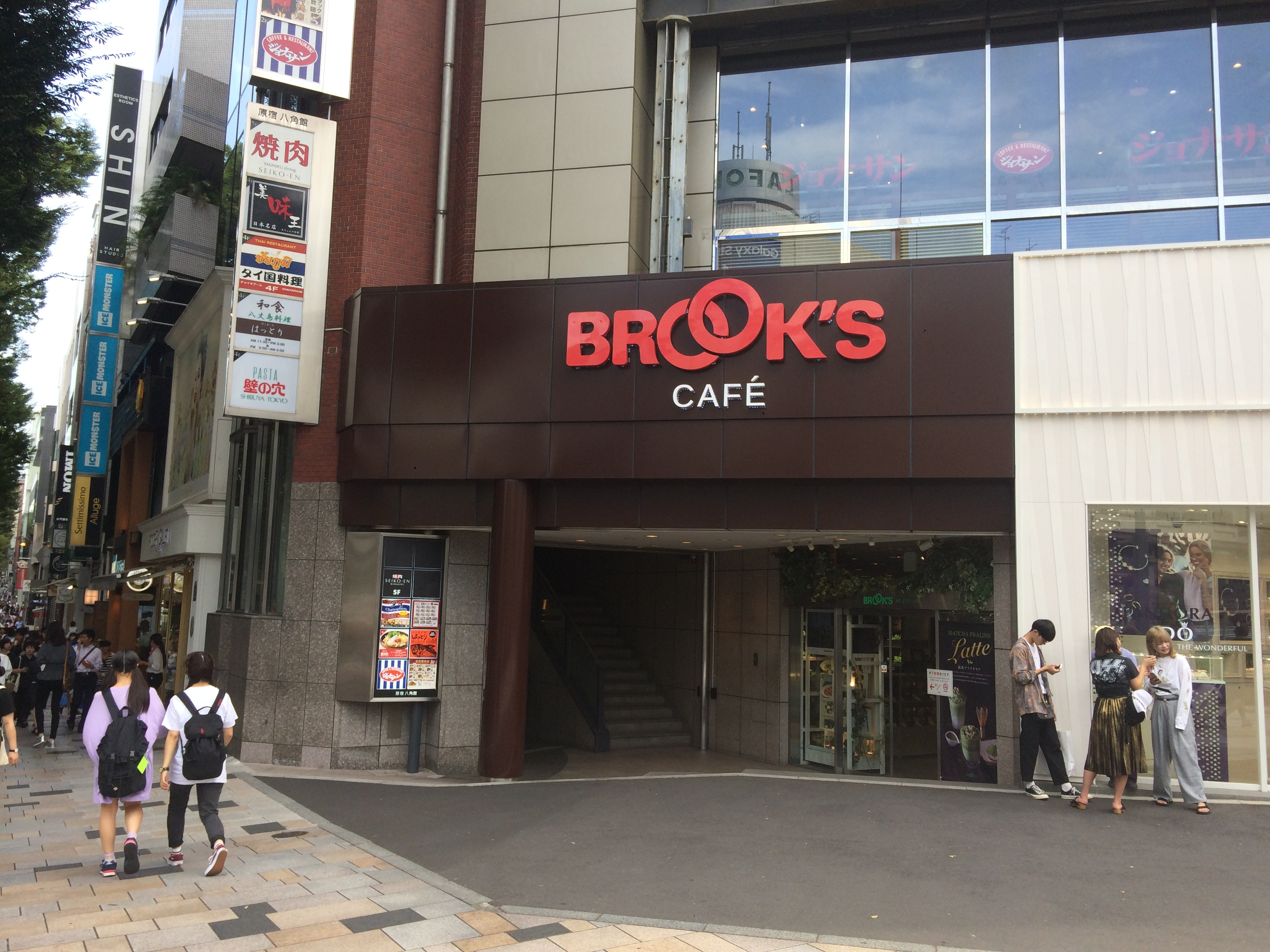 Brook's Cafe in Harajuku, Tokyo. Photographed 2017-09-19.